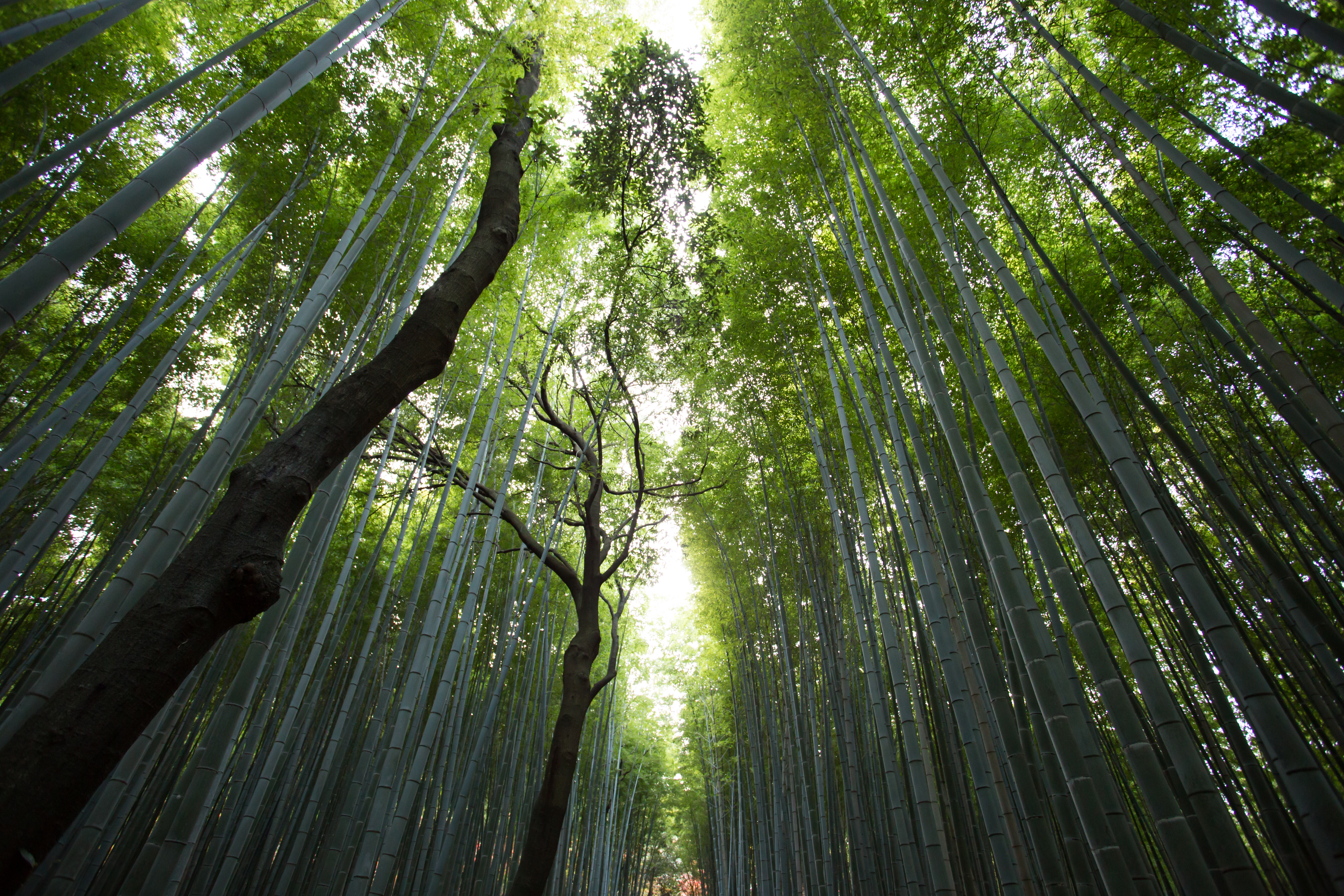 Kyoto, Japan